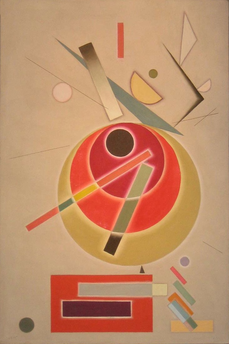 Boris Kleint, "Abstract Composition," 1939